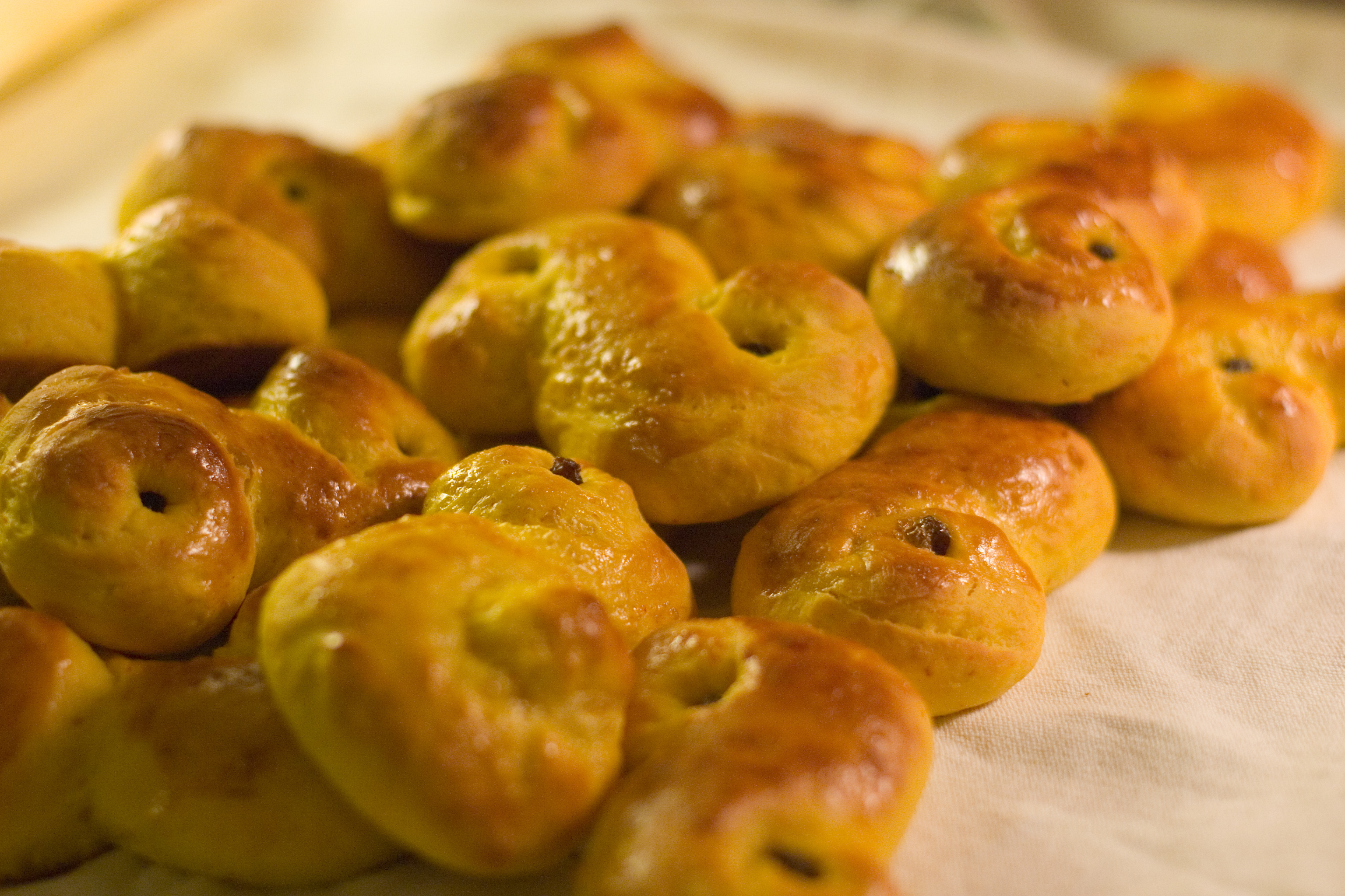 Baking Saffron buns